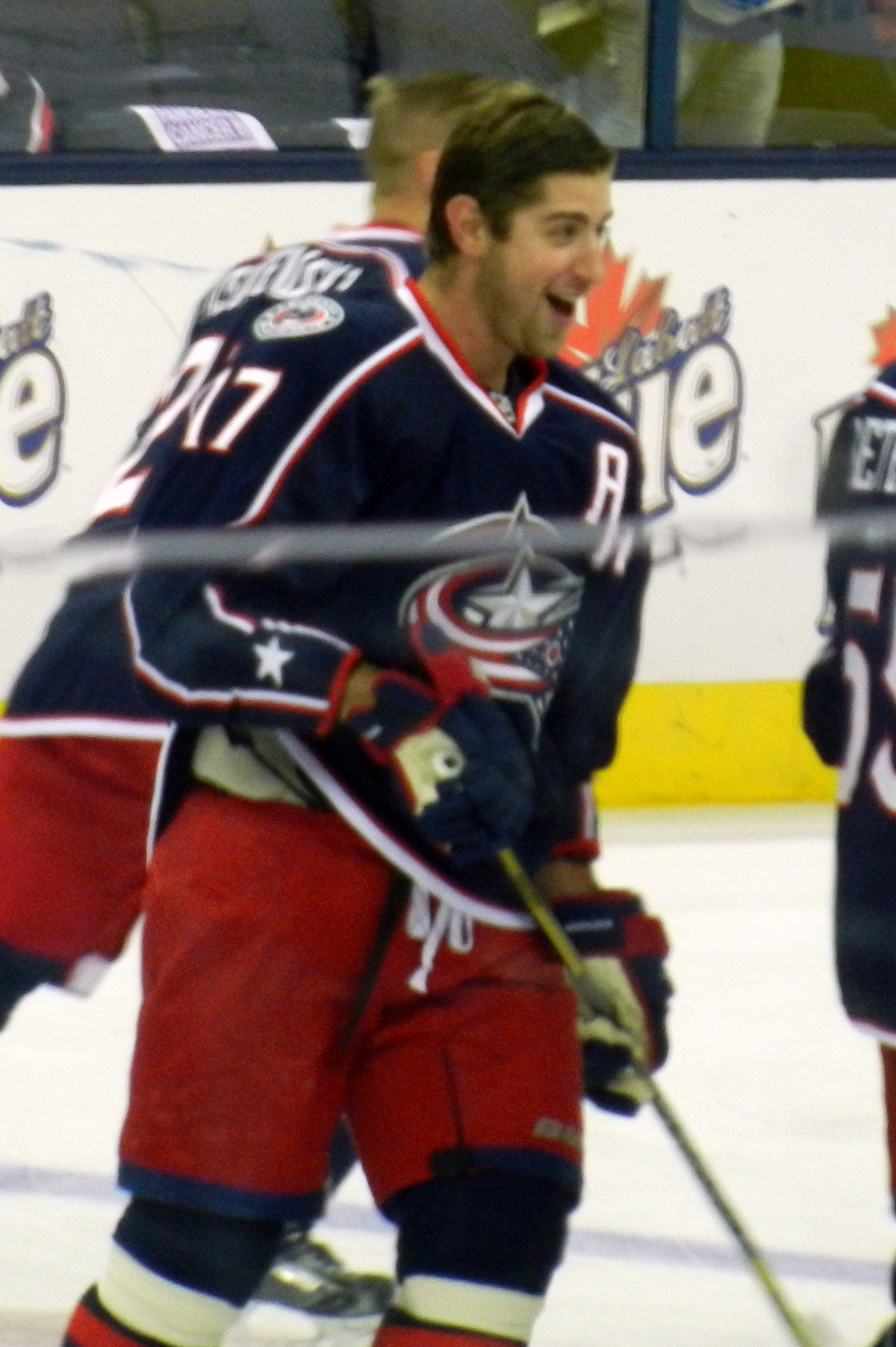 Brandon Dubinsky with the Columbus Blue Jackets in warm-ups during the 2013-14 season